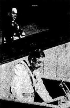 President Pinochet addresses the nation; General Leigh looks on.